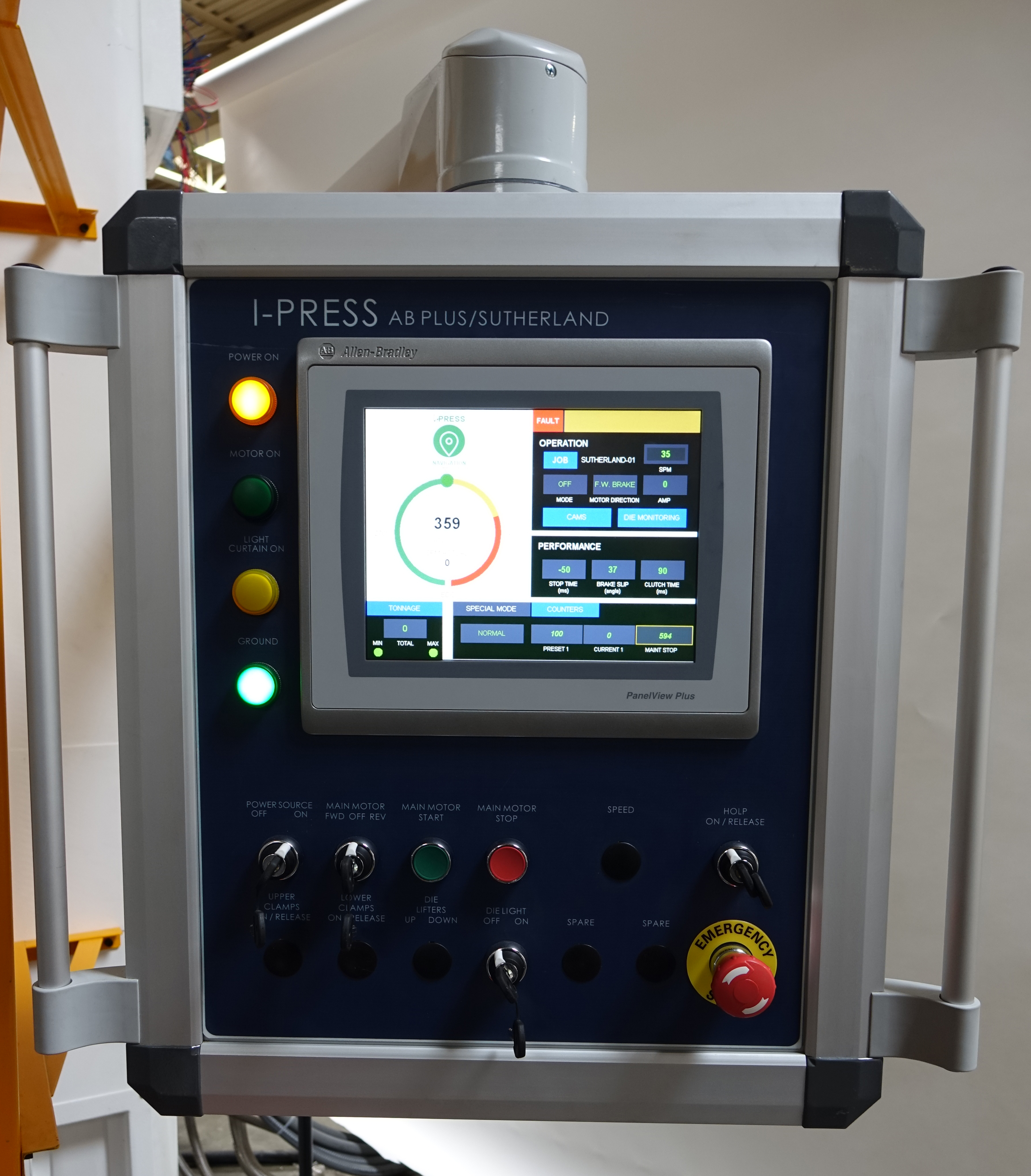 I-PRESS AB PLUS represents the latest in press and automation controls for fully featured safe operation. It comes in all languages and is suitable for the most complex jobs with room for expansion.